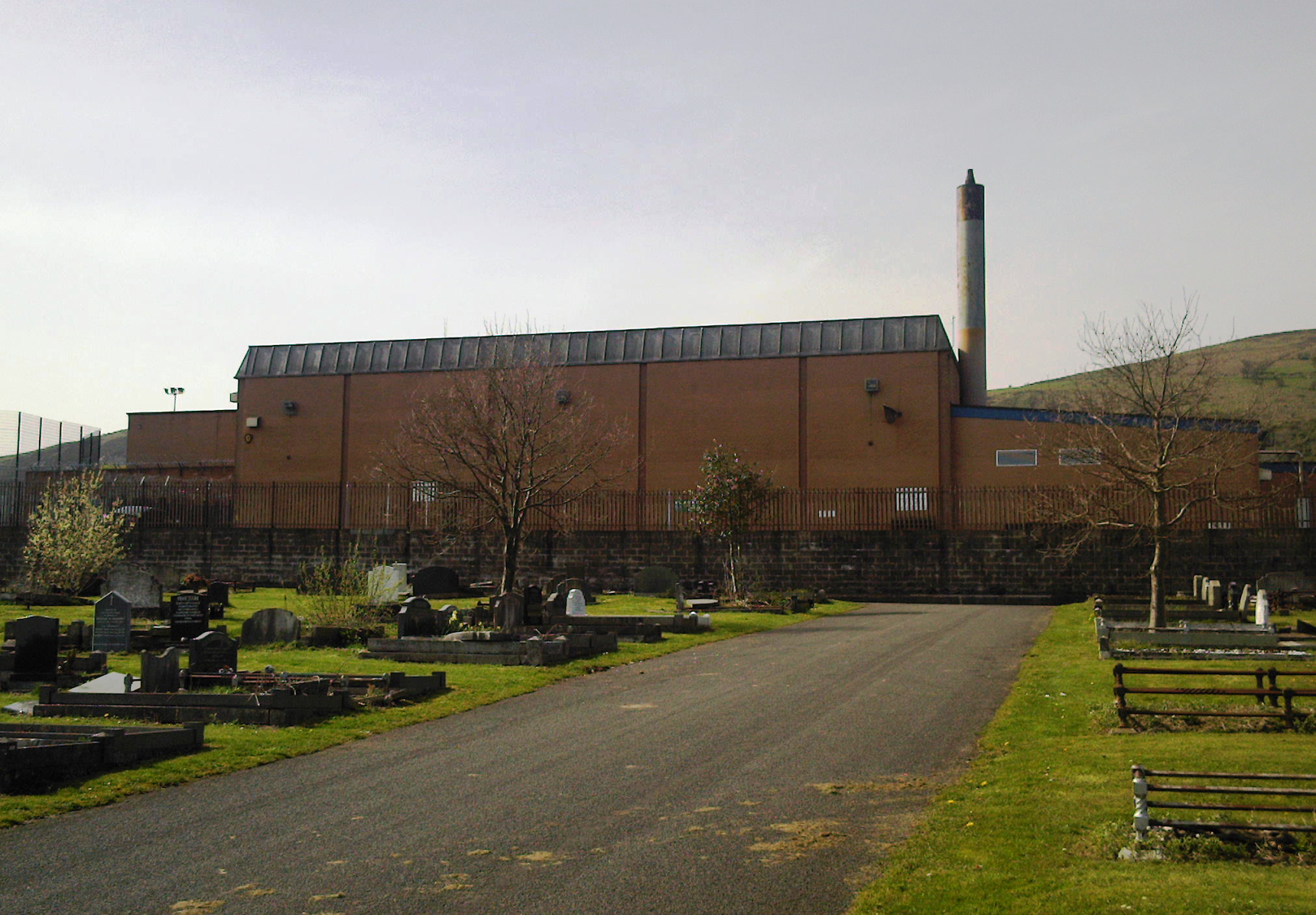 Whiterock Leisure Centre, as viewed from City Cemetery. Between the Whiterock and Falls roads, Belfast, Northern Ireland/